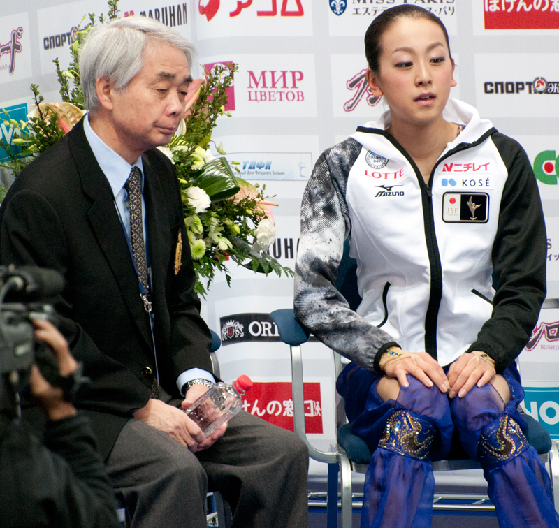 2011 Cup of Russia, short program.